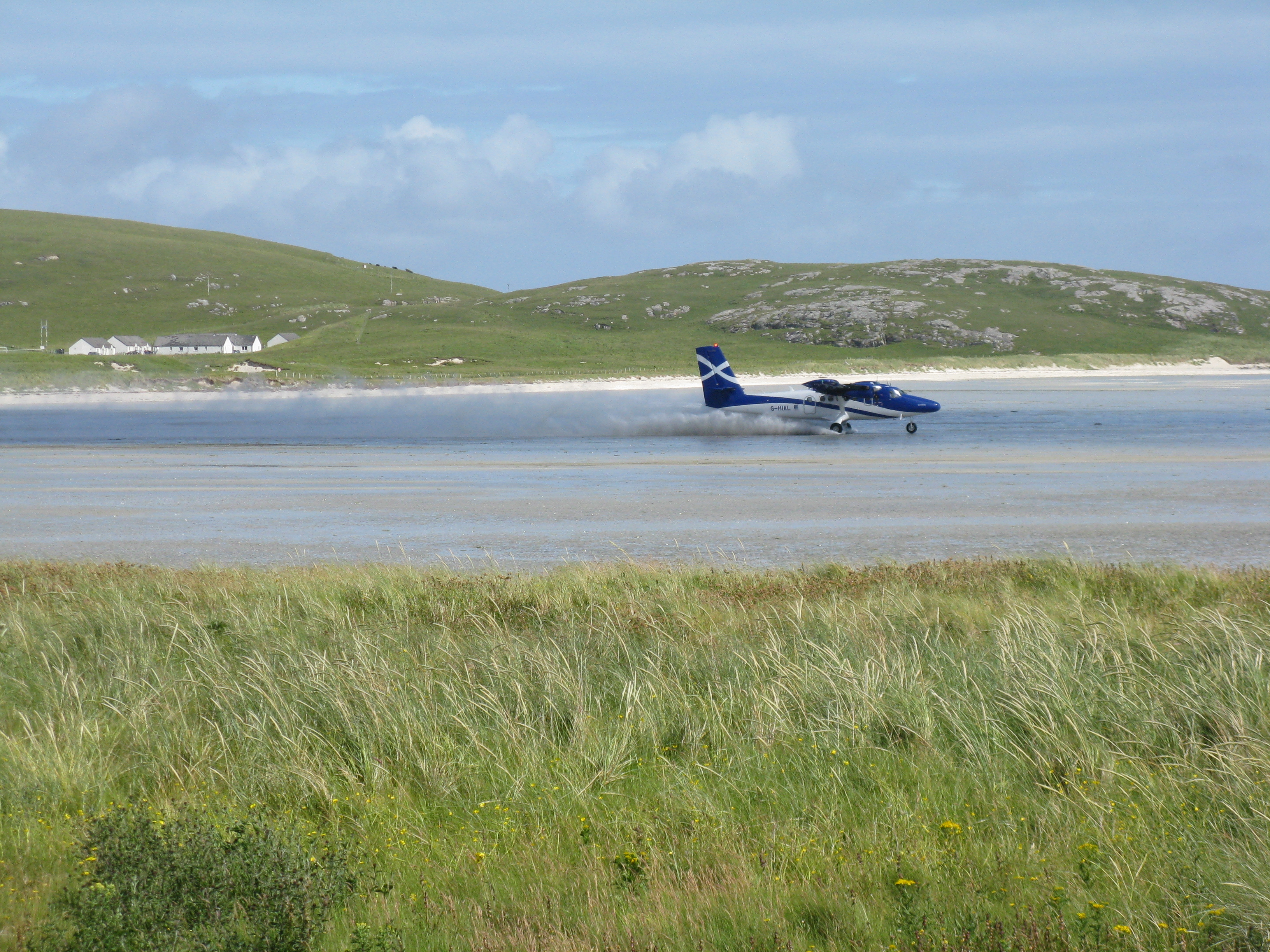 Twin Otter G-HIAL leaving Barra for Glasgow, with a good wake of spray rising from Tràigh Mhòr.